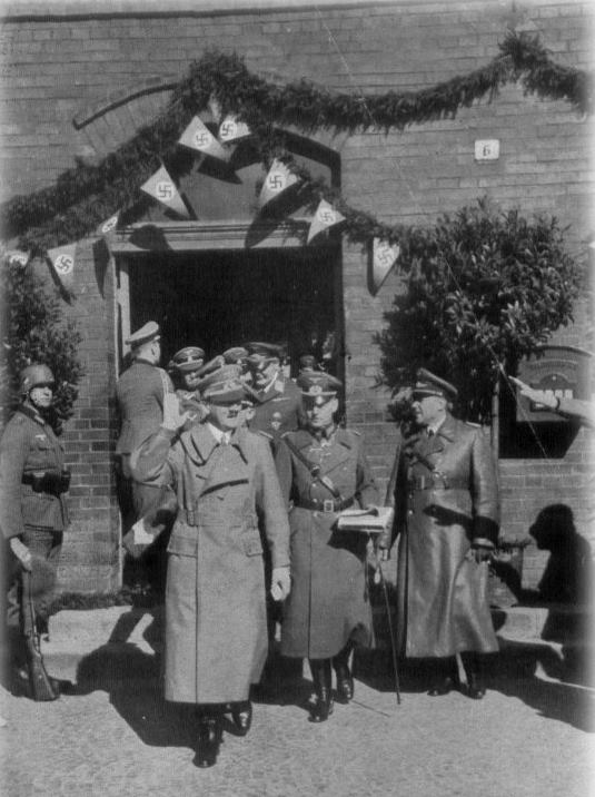 Adolf Hitler in Neustadt (currently Prudnik)